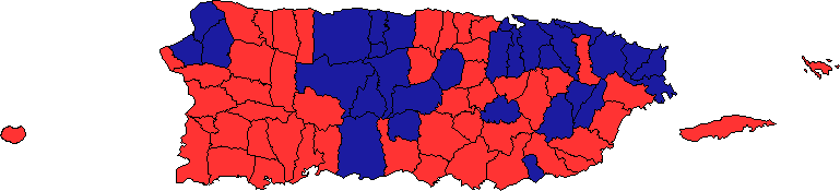 Puerto Rican general election, 1980 map.